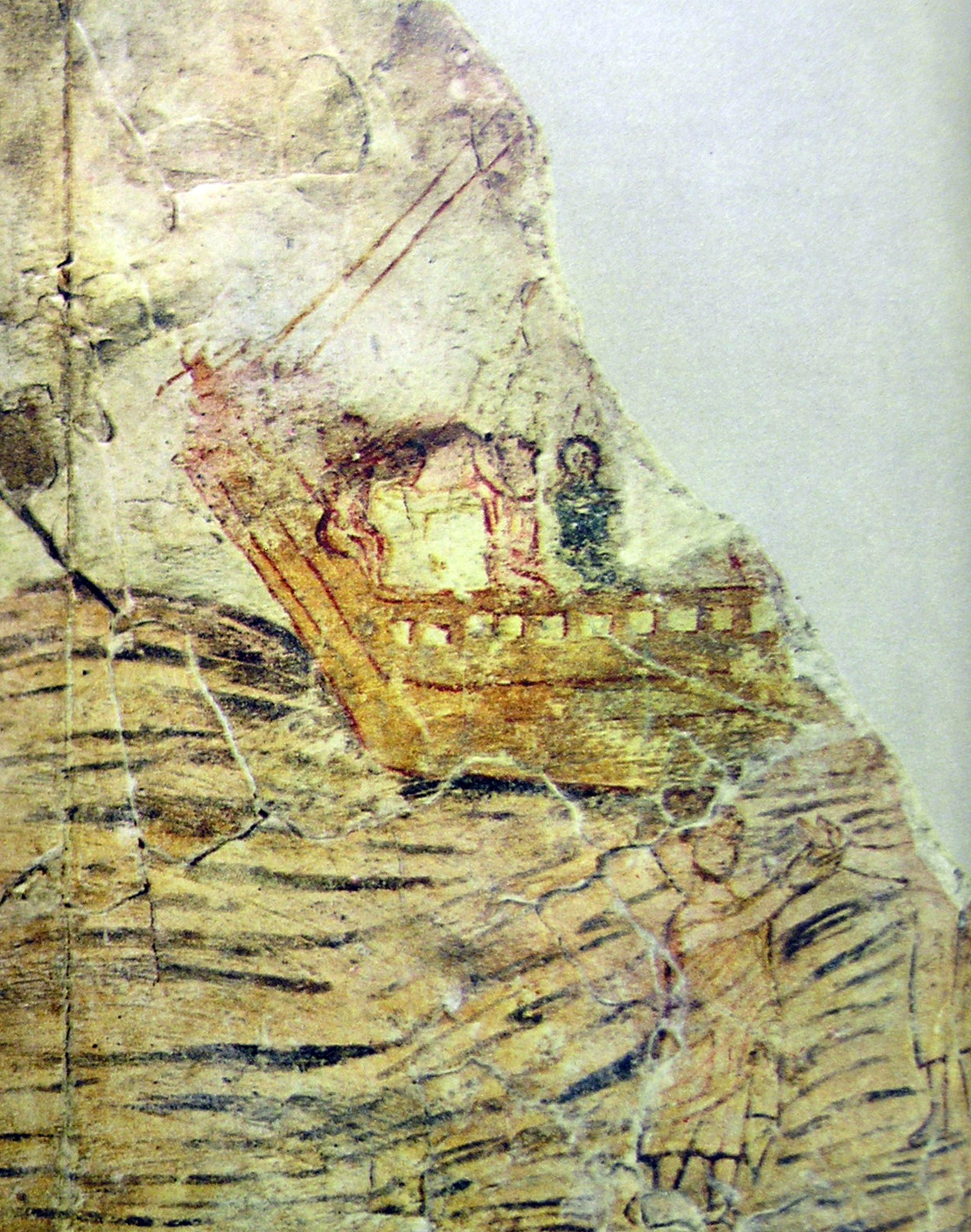 Christ and Simon-Peter walking on water. Wall painting in the baptistry of the Domus ecclesiae in Dura Europos.